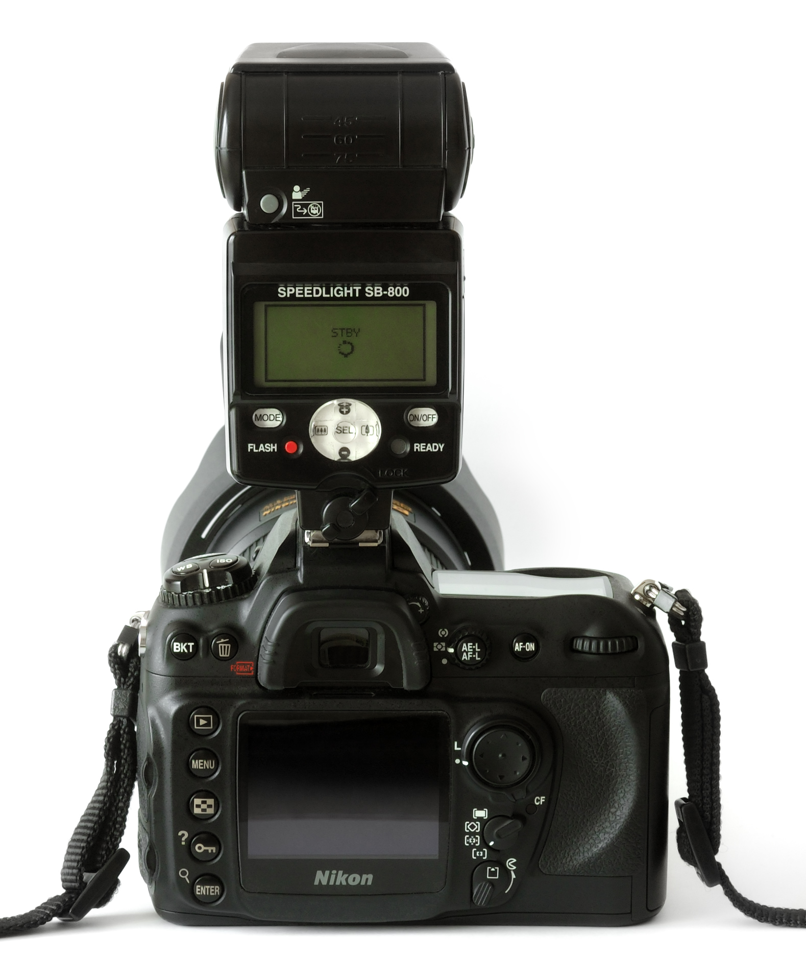 This image shows a Nikon D200 camera with a Nikon 17-55 mm / 2,8 G AF-S DX IF-ED lens and a Nikon SB-800 flash.